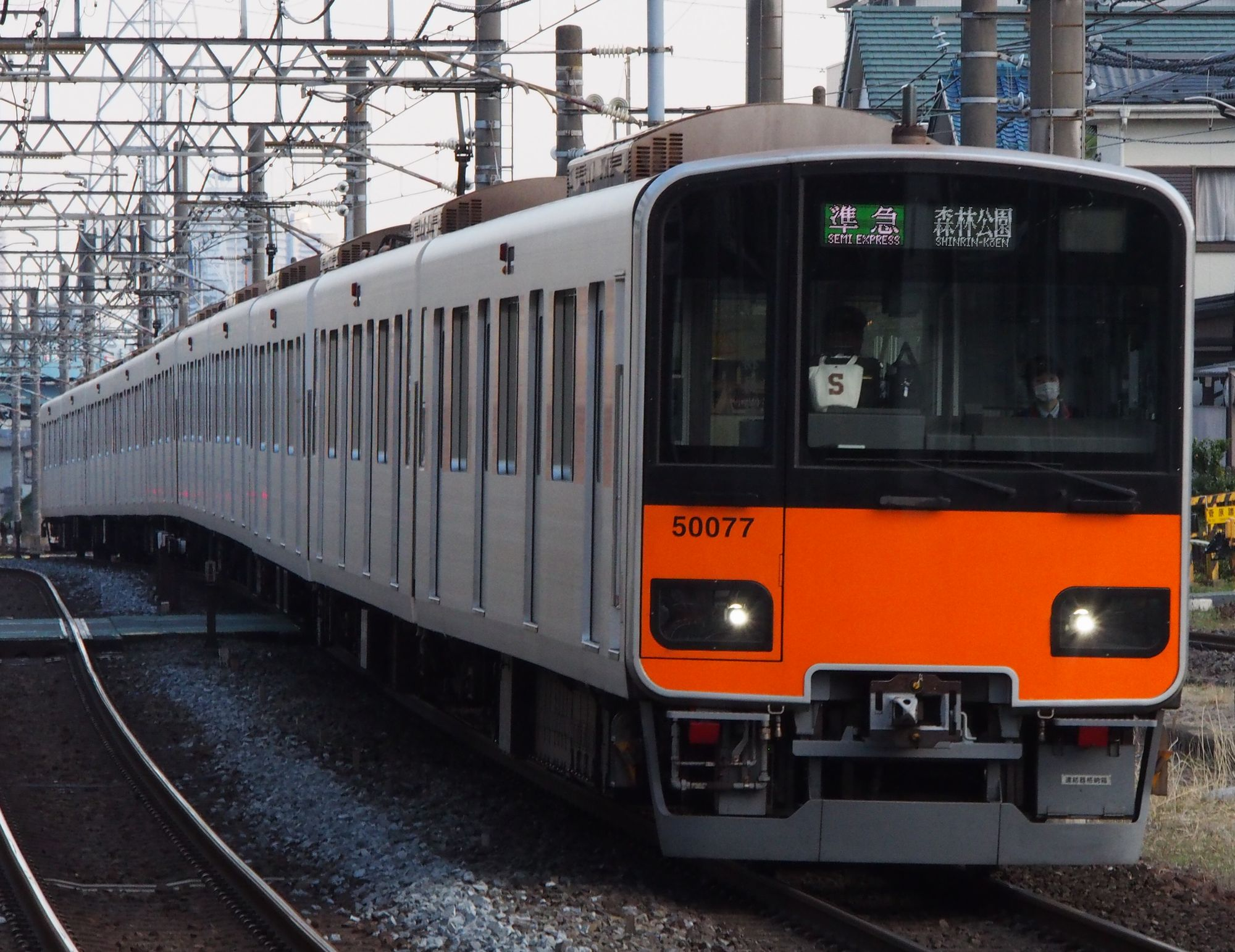 Tobu Railway 50070 series EMU set 51077 approaching Kawagoe Station on a Tobu Tojo Line semi express service to Shinrinkoen